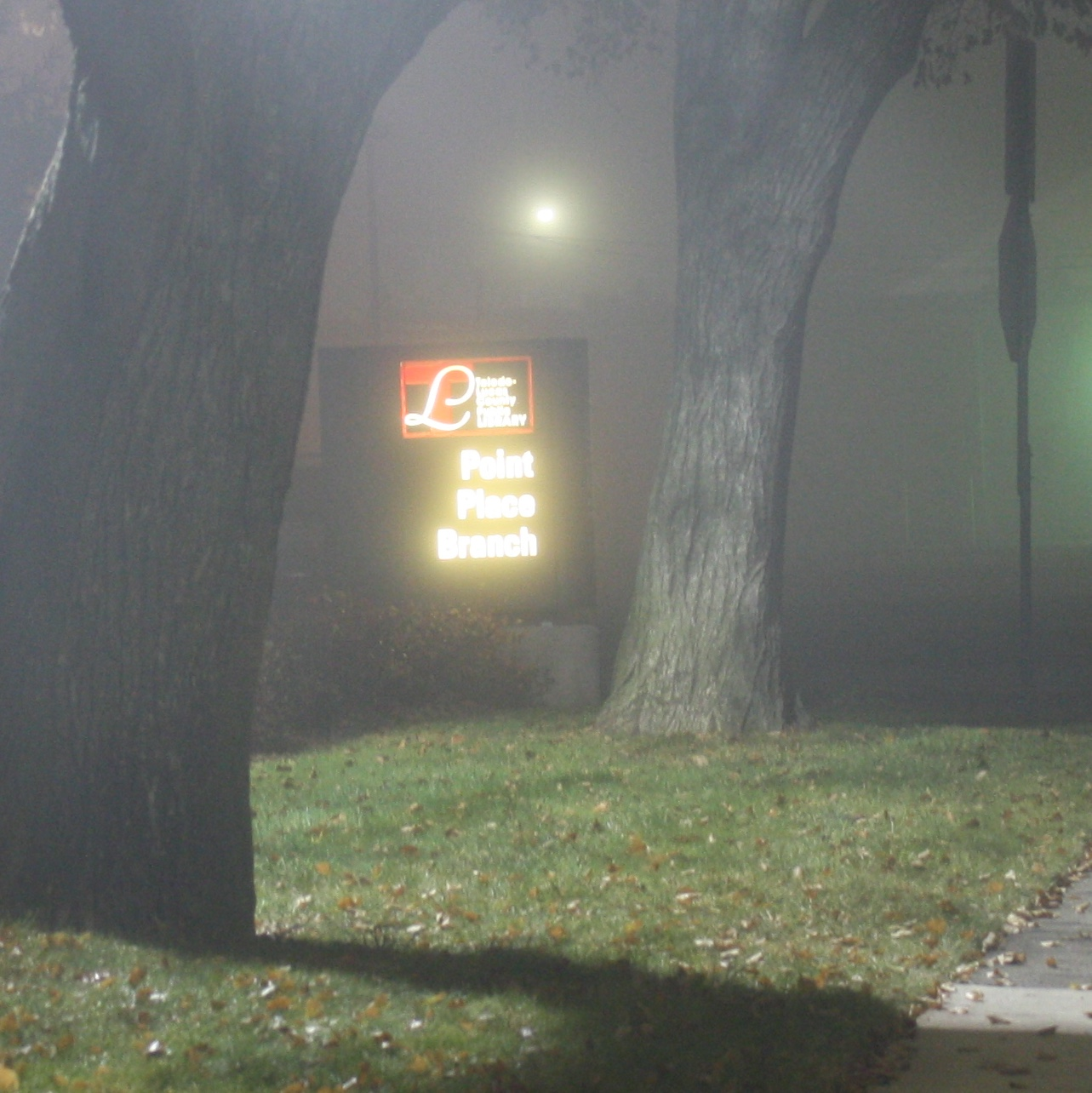 This is a photo of the illuminated street sign for the Point Place branch library in Toledo, Ohio.